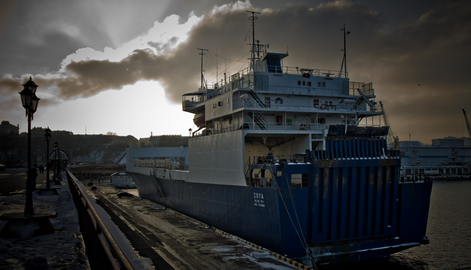 mv "Zoya" at Odessa port